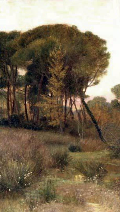 Evening (United Kingdom), Oil on panel, 46.50cm wide x 78.50cm high